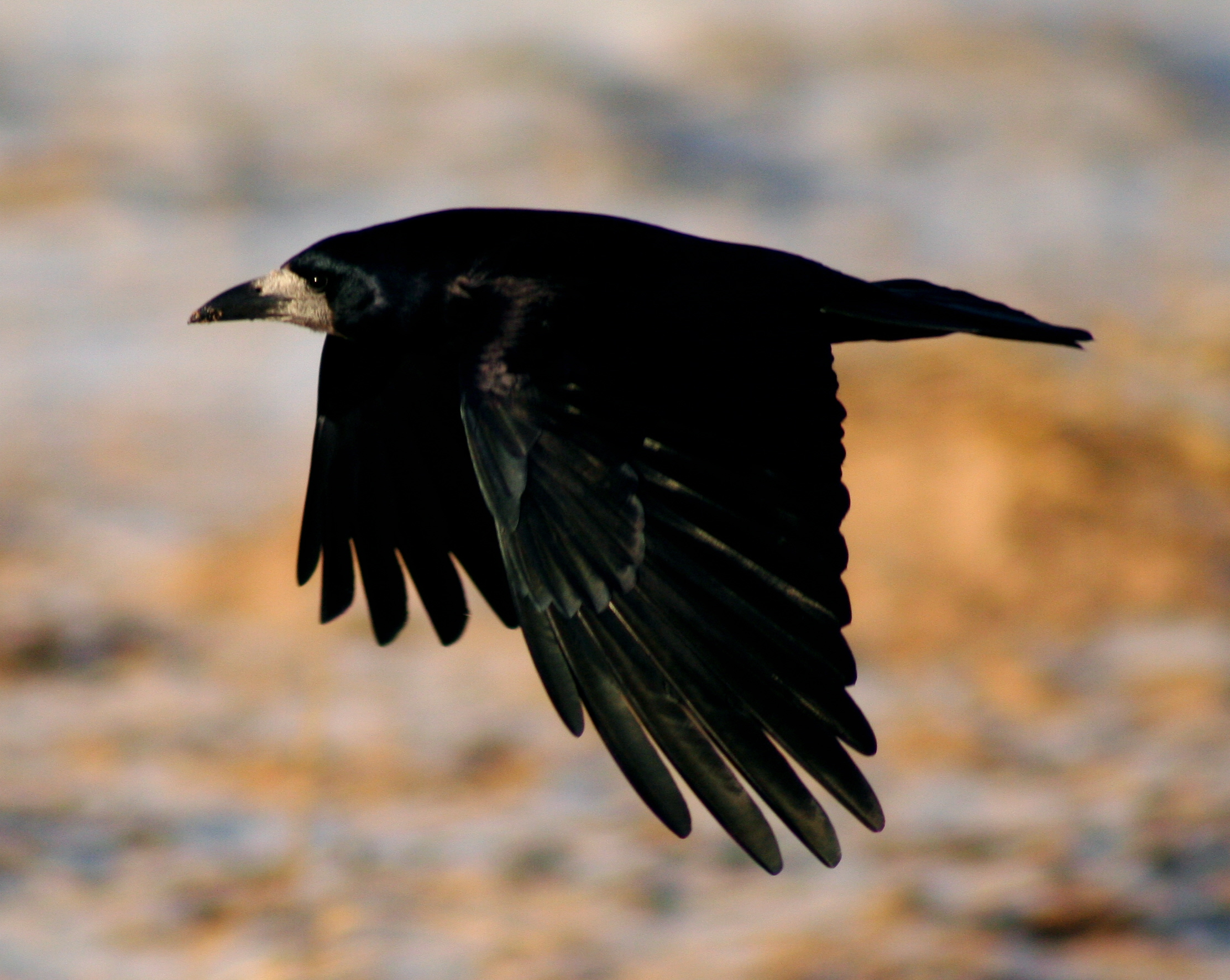 Rook (Corvus frugilegus) in flight